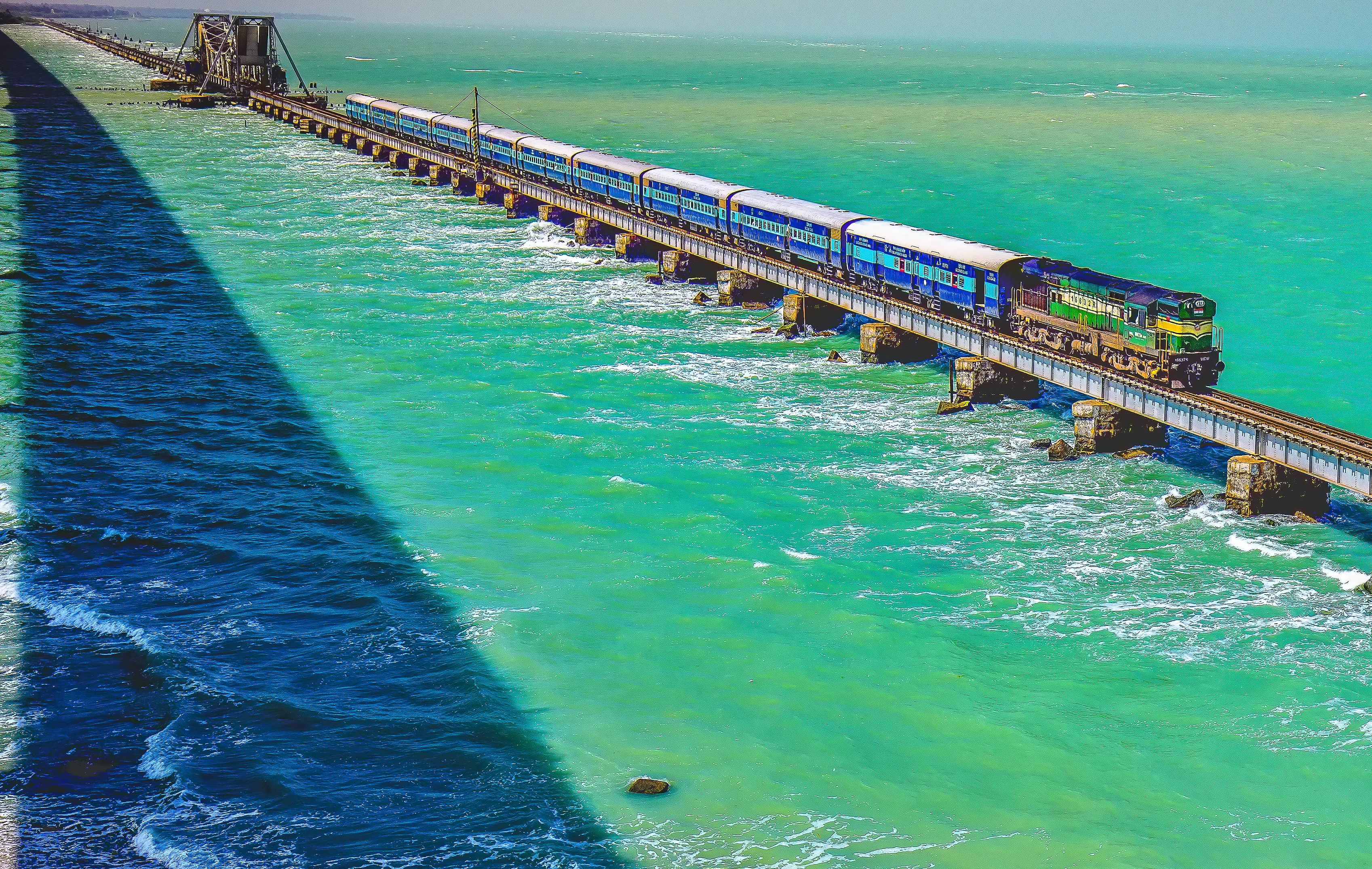 Pamban Bridge is a railway bridge which connects the town of Rameswaram on Pamban Island to mainland India. Opened on 24 February 1914, it was India's first sea bridge, and was the longest sea bridge in India until the opening of the Bandra-Worli Sea Link in 2010. The rail bridge is, for the most part, a conventional bridge resting on concrete piers, but has a double-leaf bascule section midway, which can be raised to let ships and barges pass through.